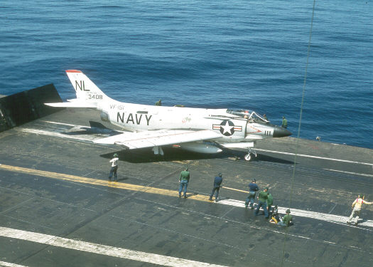 A McDonnell F3H-2 (F-3B) Demon (BuNo 143408) of fighter squadron VF-151 Vigilantes about to be launched. VF-151 was assigned to Carrier Air Group Fifeteen (CVG-15) aboard the aircraft carrier USS Coral Sea (CVA-43) from 1959 to 1963.